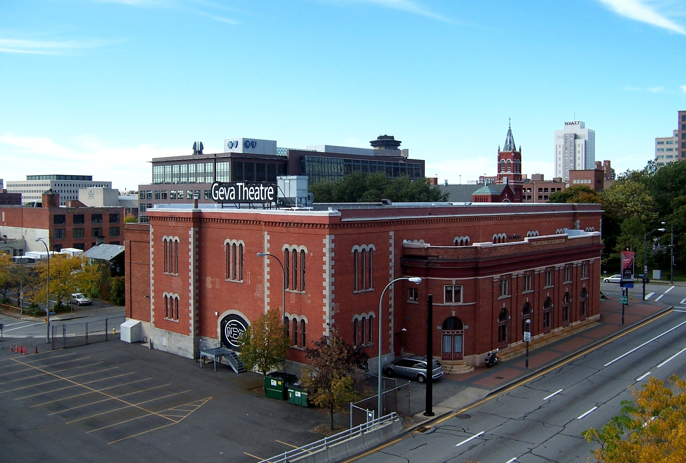 The Geva Theatre Center in Rochester, New York. This building, which was added to the National Register of Historic Places in 1985, was originally constructed in 1868 as a Naval Armory and Convention Hall. It was renovated to house two theaters in 1972. This photograph, with the camera facing northwest, shows the rear of the building, with the NextStage entrance. The main entrance is on the north side of the building. New York State Route 15 northbound runs along the one-way street South Clinton Avenue in the foreground, terminating at the intersection with Woodbury Boulevard on the right edge of the image. Woodbury Boulevard here carries New York State Route 31 eastbound (left to right).